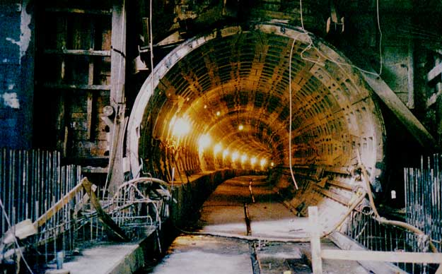 Construction of the Washington Metro subway at the Navy Yard, Washington, DC, USA